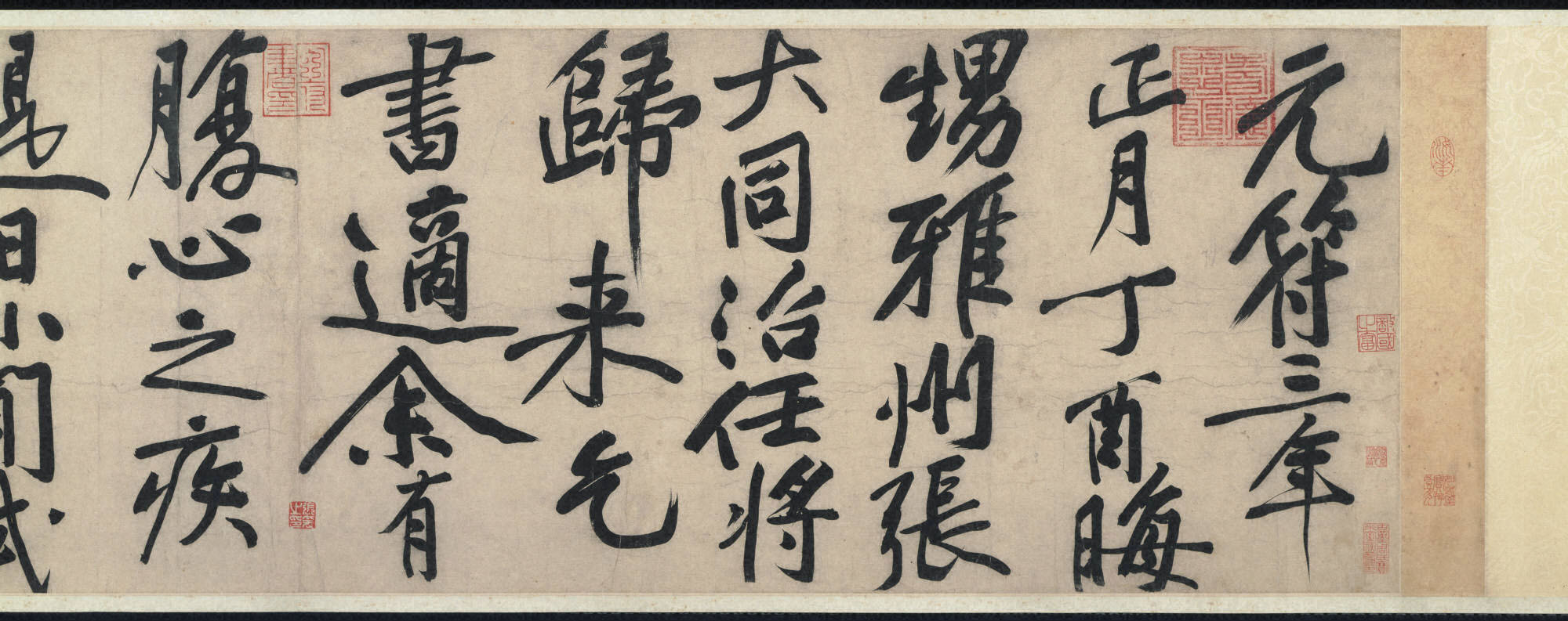 Chinese, Northern Song dynasty, 960–1127 Huang Tingjian 黃庭堅, 1045 - 1105 Place made: China Scroll for Zhang Datong (Zeng Zhang Datong guwen ti ji 贈張大同古文 **), 1100 Handscroll; ink on paper Calligraphy: 34.1 x 552.9 cm. (13 7/16 x 217 11/16 in.) Colophons: 34.8 x 303.3 cm. (13 11/16 x 119 7/16 in.) Mount: h. 36.4 cm. (14 5/16 in.) Gift of John B. Elliott, Class of 1951 y1992-22